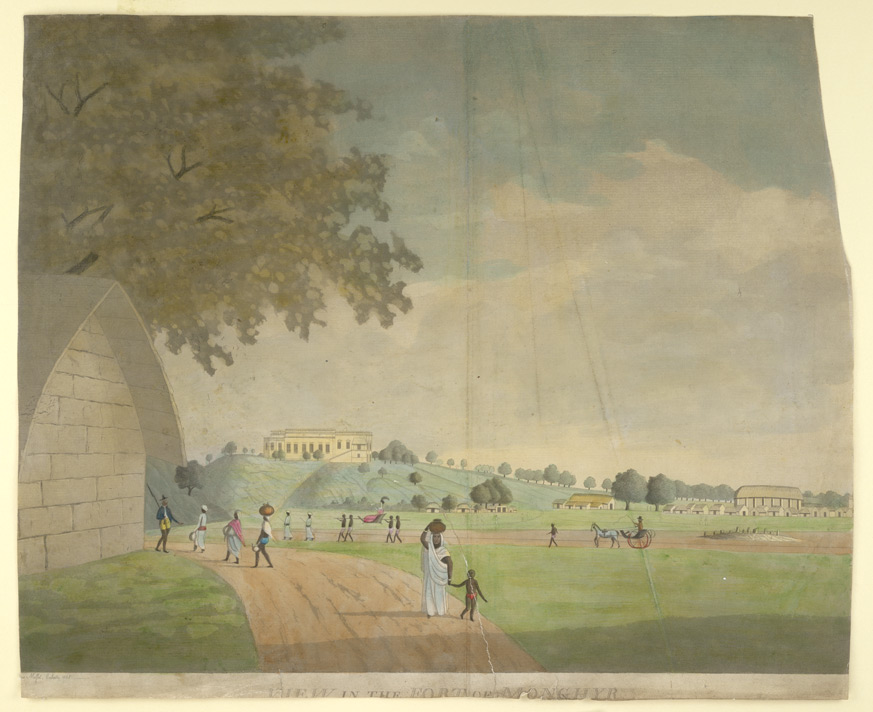 'View in the fort of Monghir'. A large grassed area, with people walking about and with different conveyances, with in the distance the hill-top house of the Fort Commander.